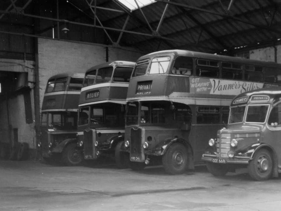 The depot of Chambers in 1970. The three buses on the left are Guy Arab double deckers, which were used on the Colchester to Bury St Edmunds service at the time. They are, from left to right, ECF 756 and KCF 711, new to Chambers themselves, and HWO 341, ex-Red and White. The single decker on the right is CCF 669, a Duple bodied Bedford OB.